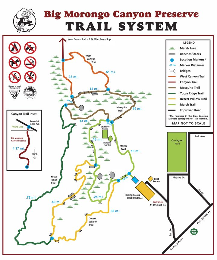 Big Morongo Canyon Preserve Trail Map